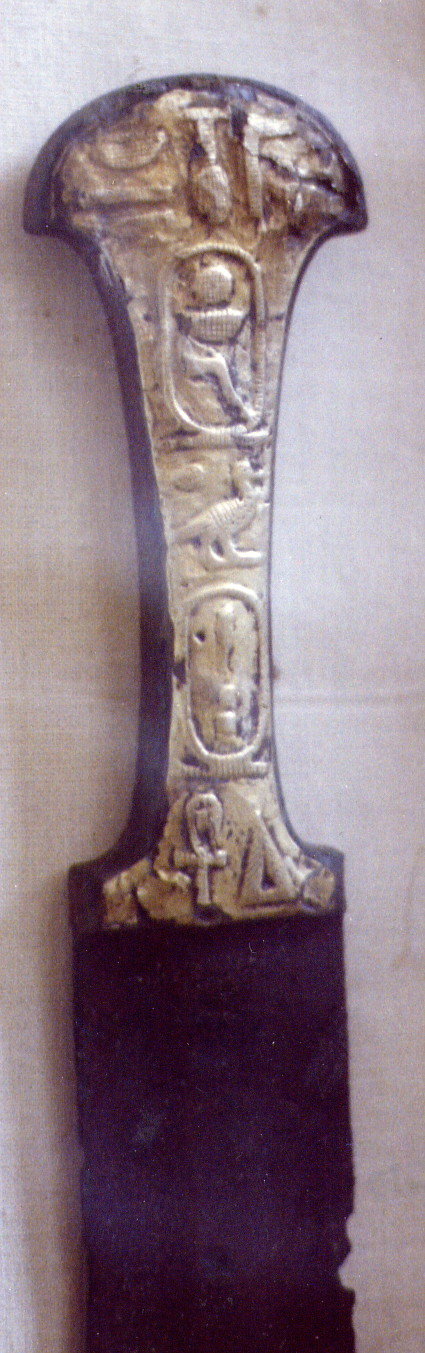 Dagger with name of king Apophis, Cairo Egyptian Museum